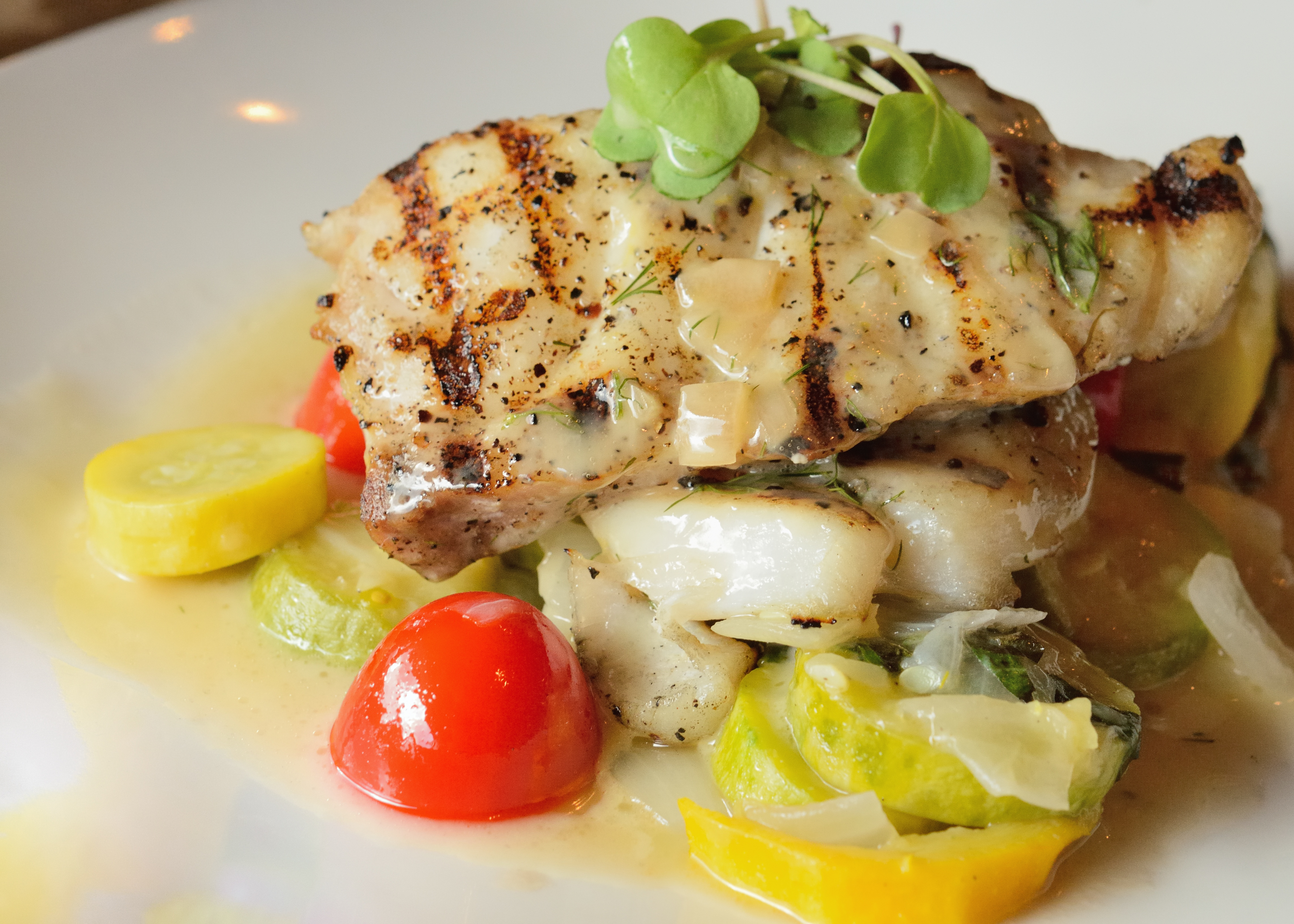 Greg Abrams' Grilled Black Grouper with stewed squash, basil, sweet onions, cherry tomatoes, and dill-lemon beurre blanc at Dyron's Lowcountry Restaurant in Crestline Village in Mountain Brook, Alabama.